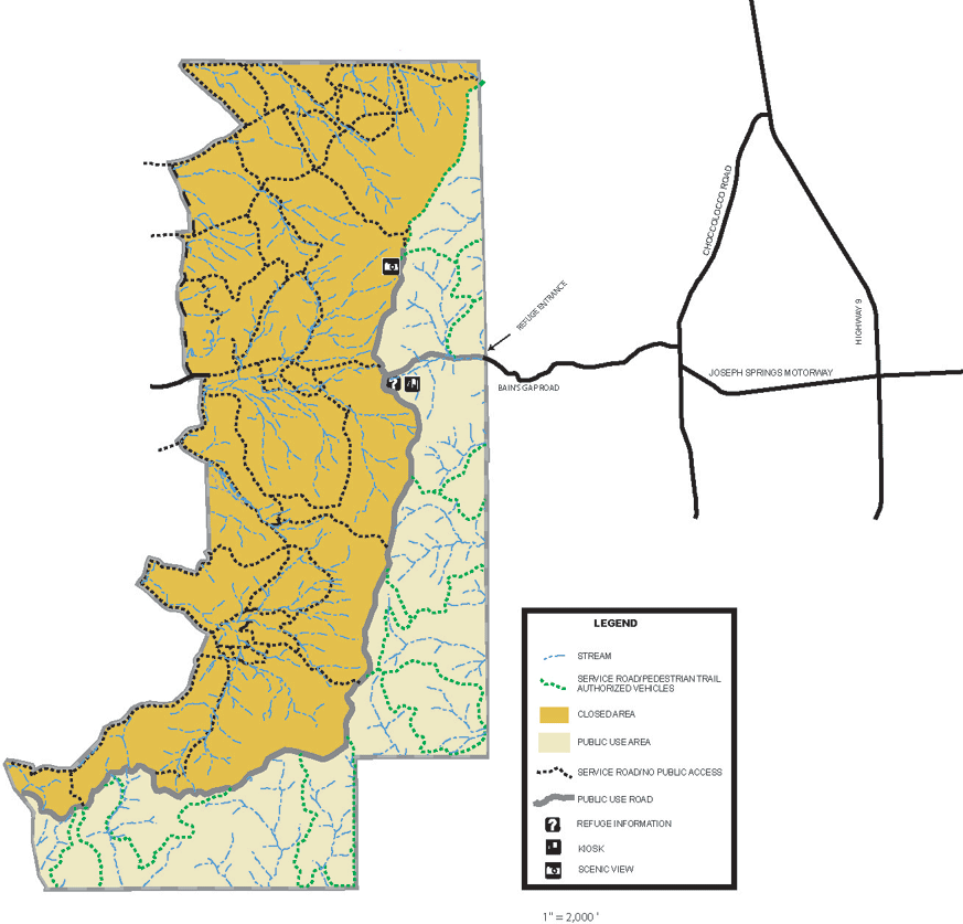 Mountain Longleaf National Wildlife Refuge (Alabama)